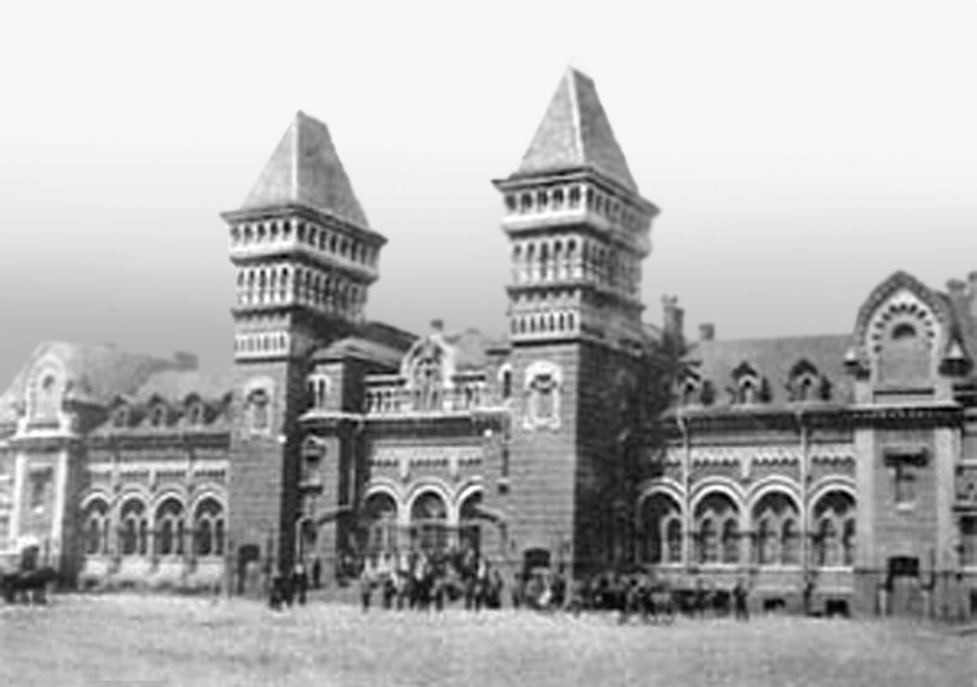 Building of the Ekaterinoslav Railway Station (now in Dnipropetrovsk, Ukraine). Photo taken in 1909.